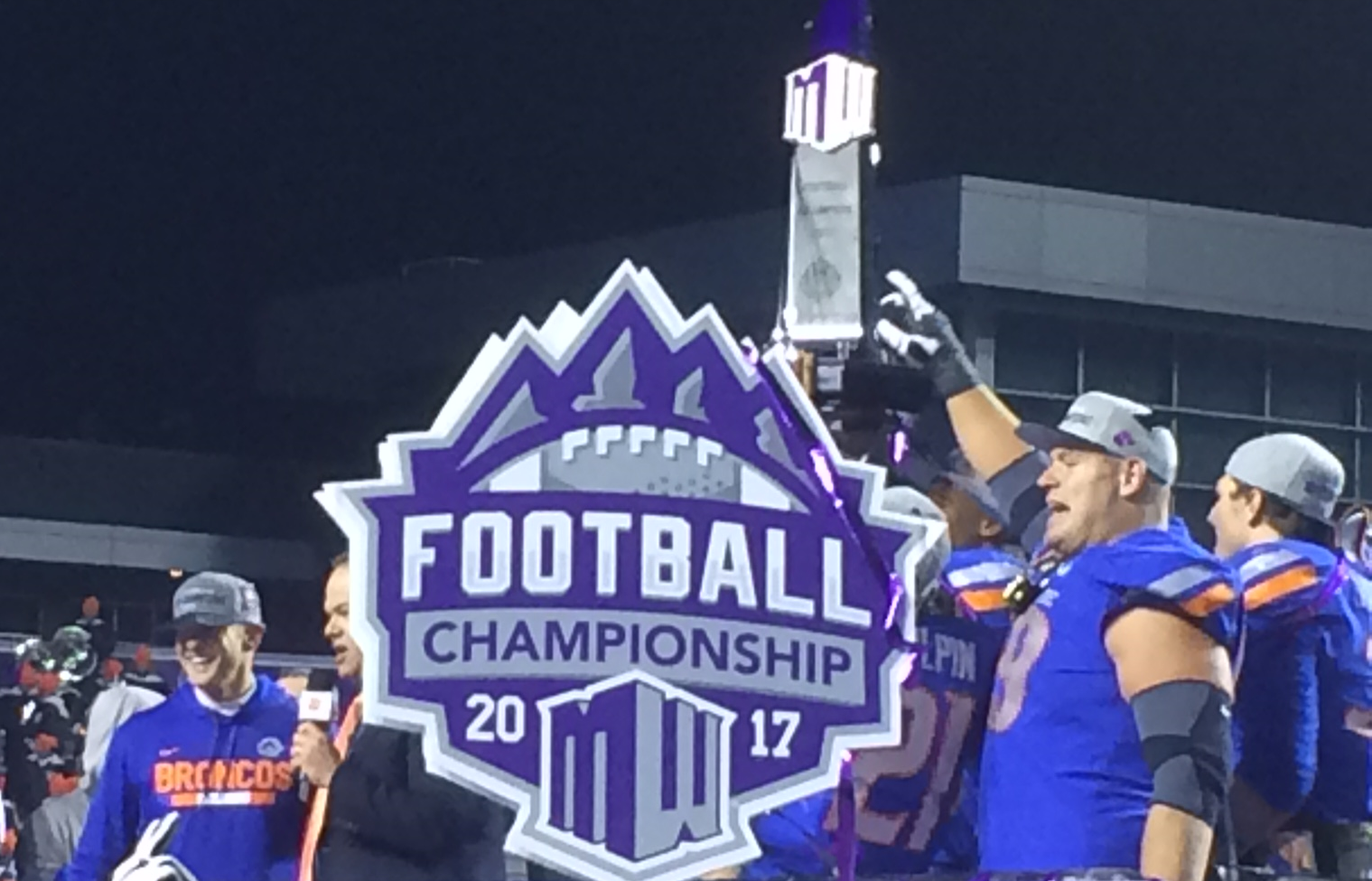 Boise State head coach Bryan Harsin and players celebrate with the Mountain West football championship trophy after their victory vs. Fresno State on December 2, 2017 at Albertsons Stadium in Boise, ID.